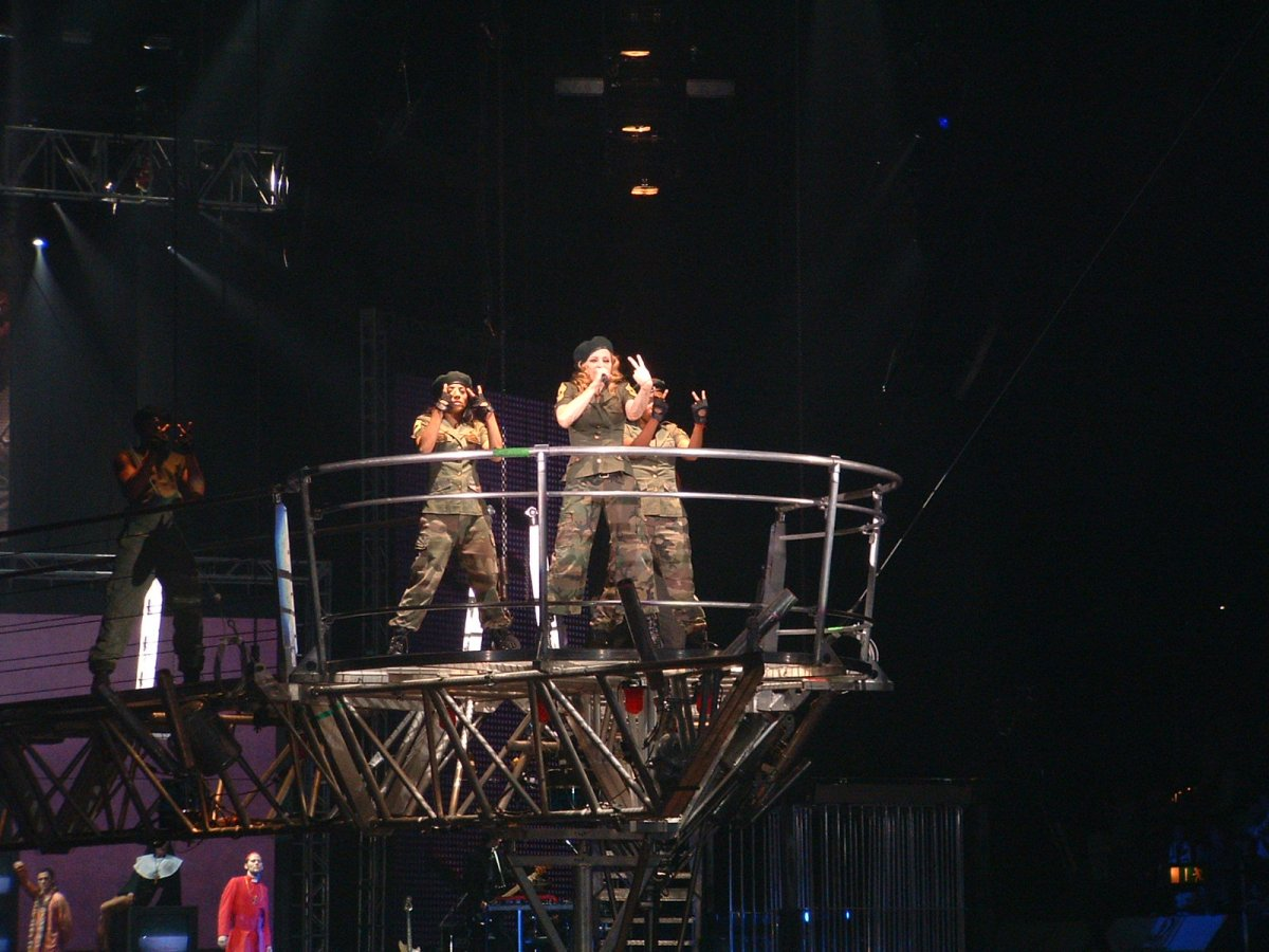 Picture taken by a fan during one of the 2004 concerts